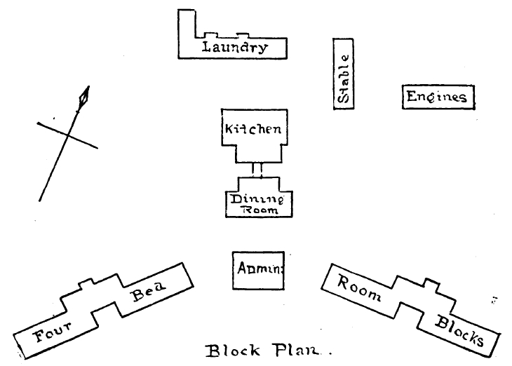 Pinewood Sanatorium block plan